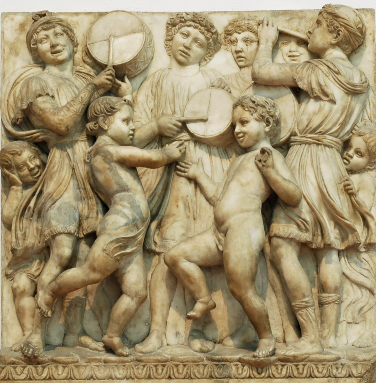 Boys playing music, illustration of Psalm 150 (Laudate Dominum). Panel decorating the cantoria (singers' gallery), actually a balcony for the 1438' organ of the Duomo. Museo dell'Opera del Duomo, Florence, Italy. Marble.